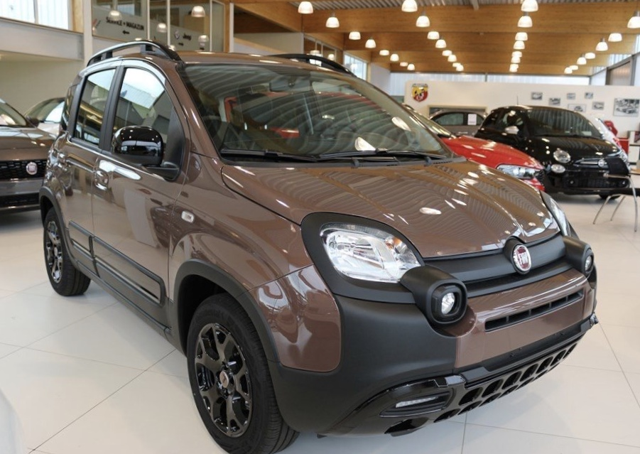 2019 Fiat Panda Trussardi 1.2 Fire